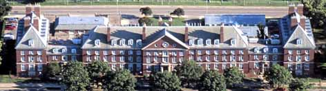 Aerial photograph of the Natural Resources Building on Peabody Drive in Champaign, on the campus of the University of Illinois at Urbana-Champaign.